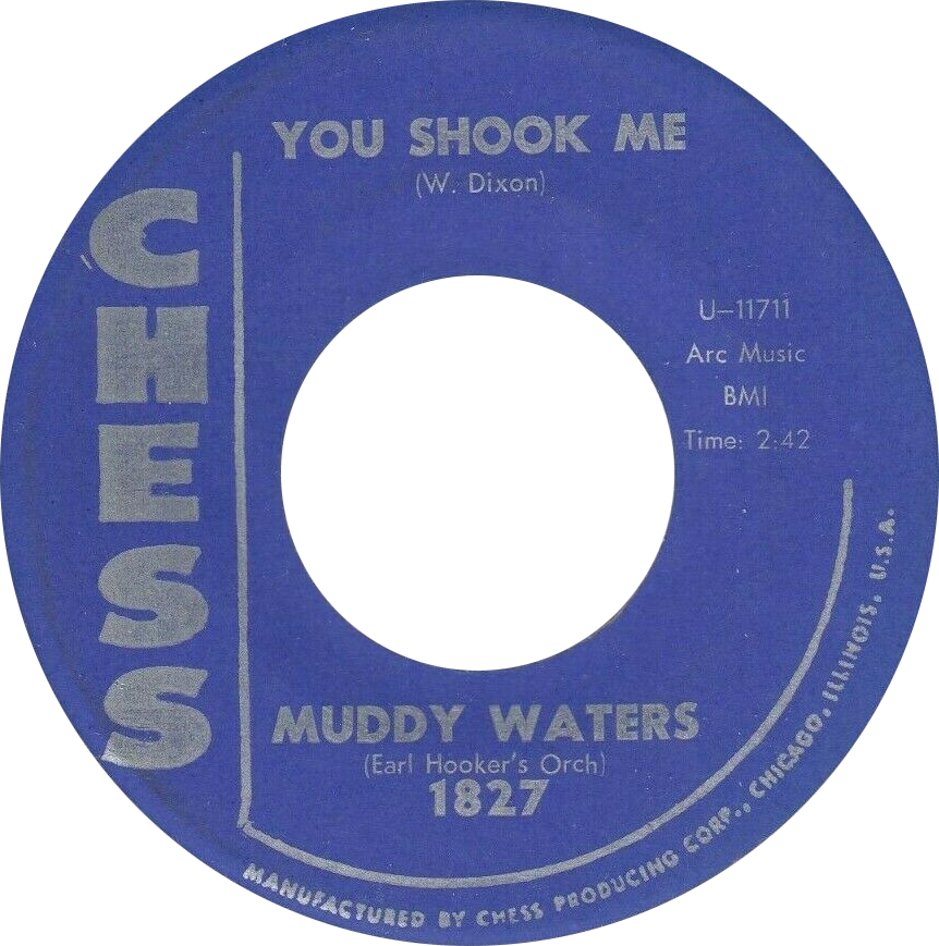 Side-A label of the US vinyl single "You Shook Me" (1827) by Muddy Waters